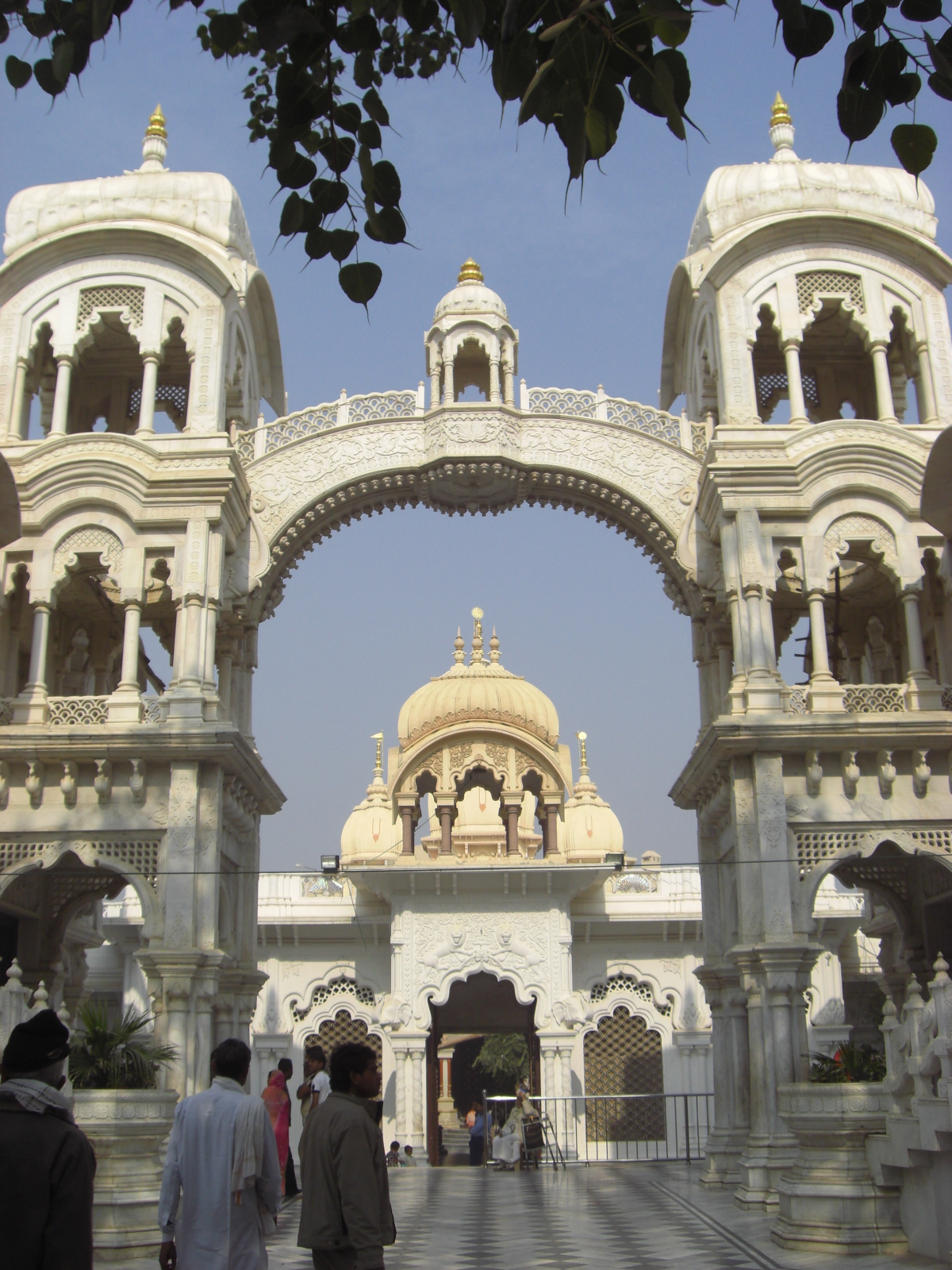 Krishna-Balaram-Mandir temple in Vrindavan, India